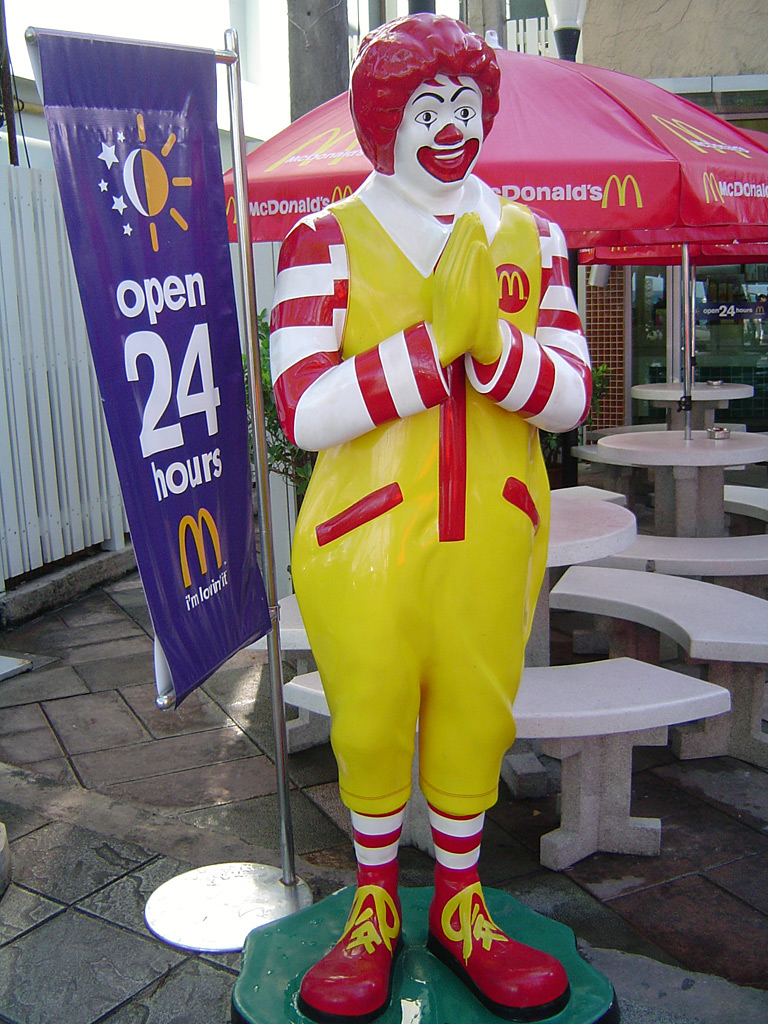 The Thailand version of Ronald McDonald, performing the Thai "wai" gesture of greeting.